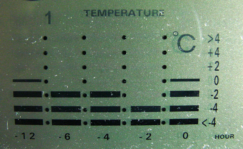 Bar graph display from the weather station